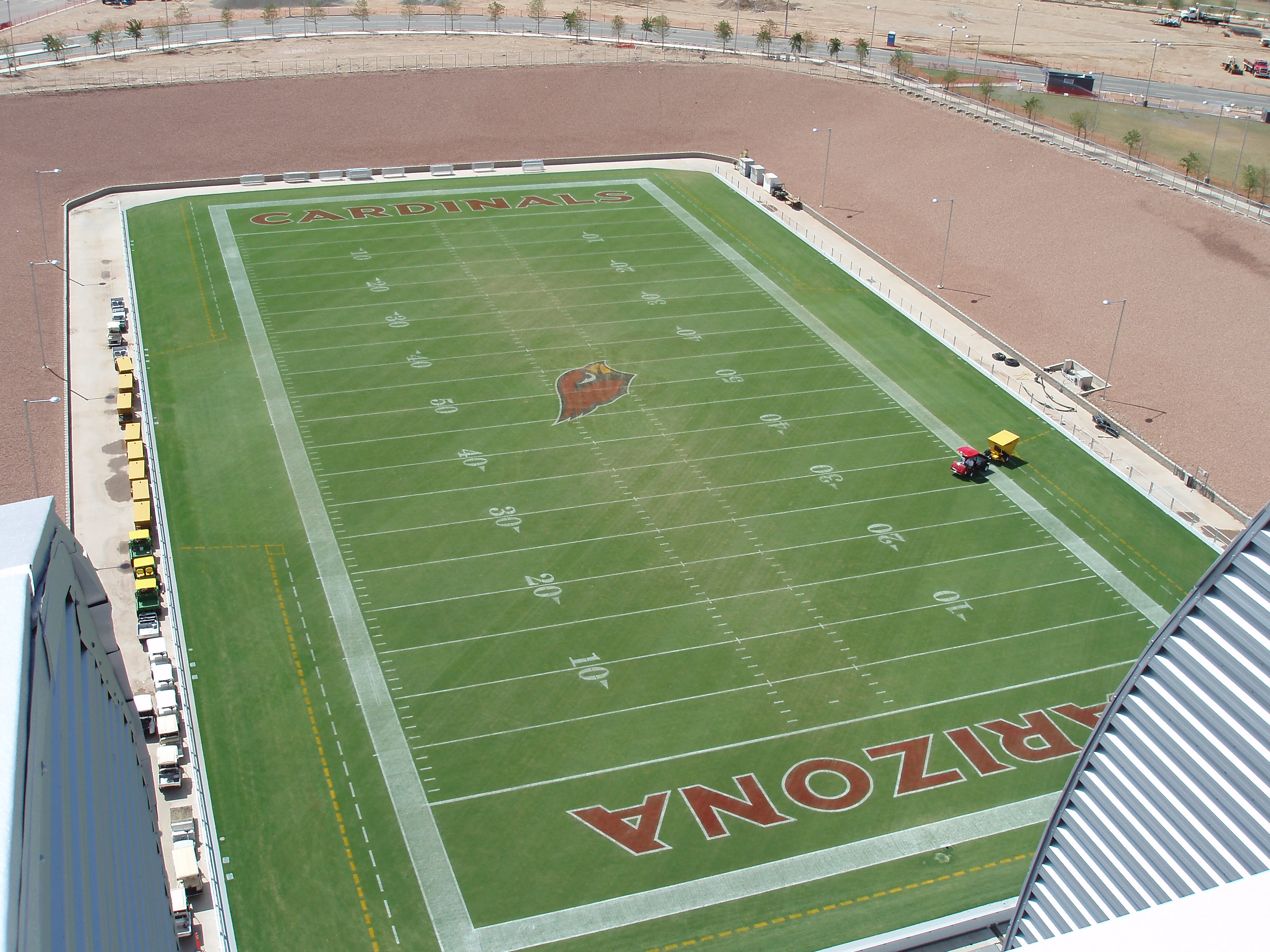 Arizona Cardinal's playing field outside of University of Phoenix Stadium